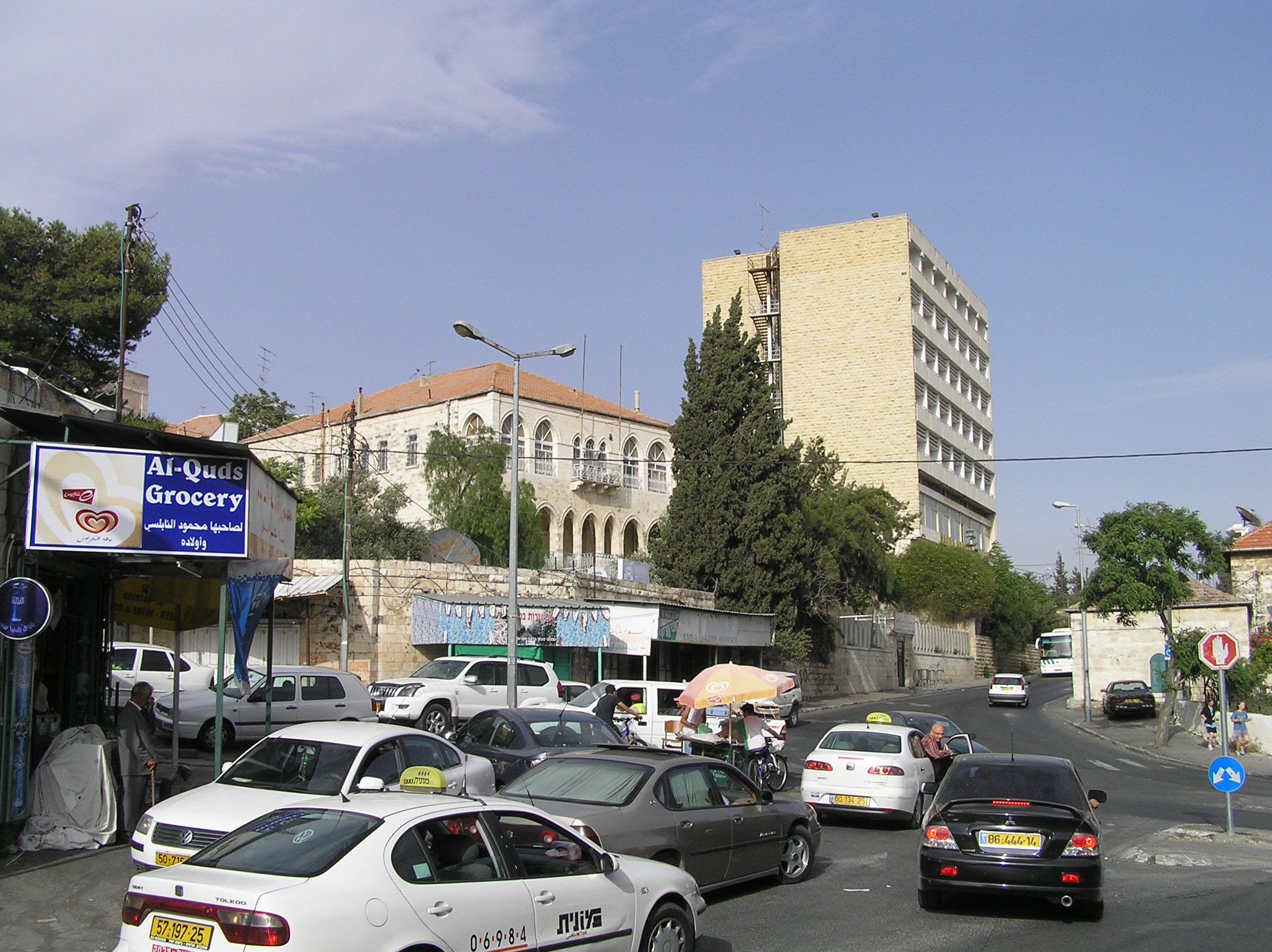 Sheikh Jarrah: Junction of Nablus Rd. and Shimon HaTzadik st. Above it - Villa Nashashibi from the 1910's